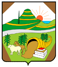 Coat of arms of this department of Guatemala Permission